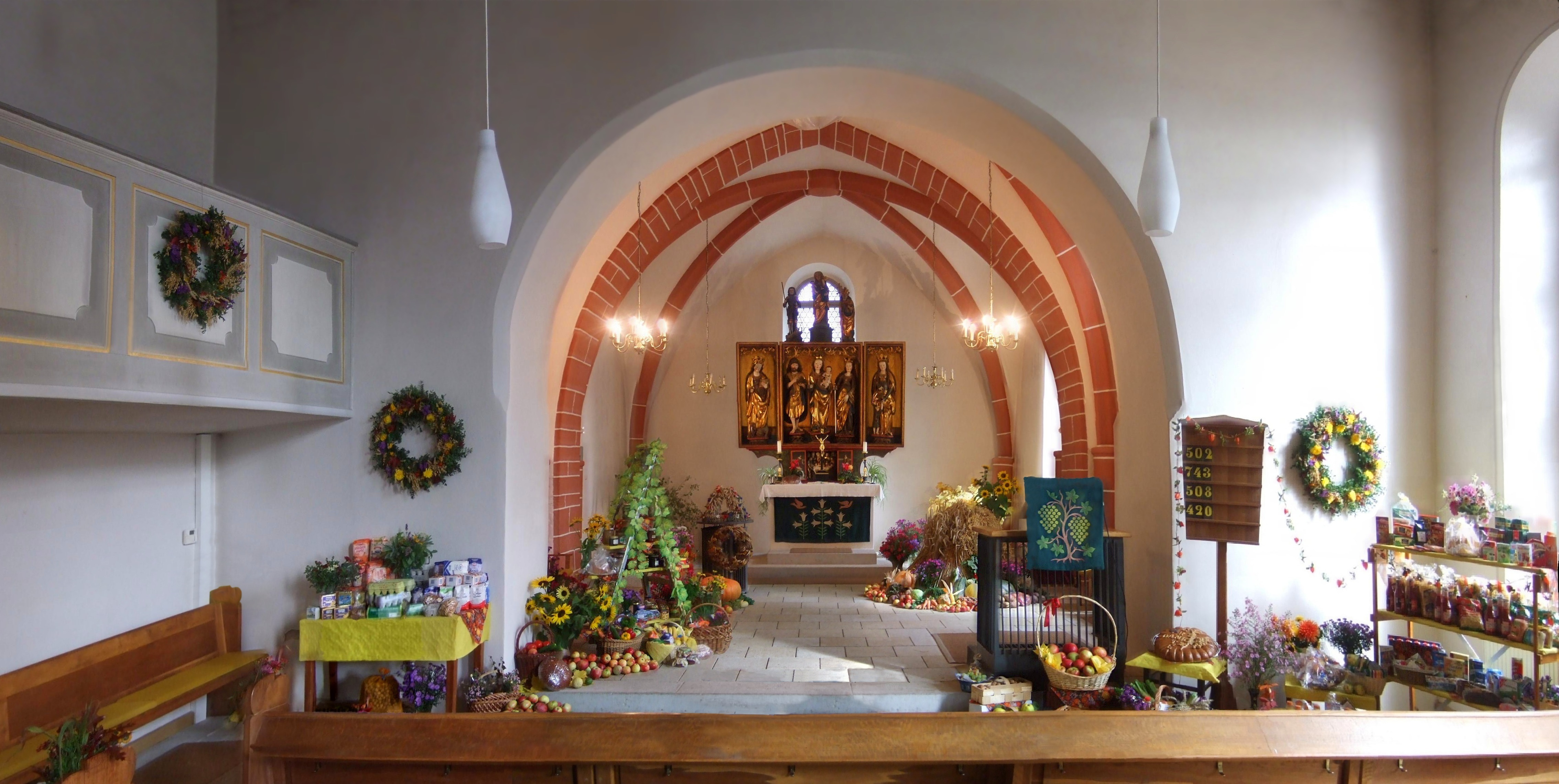 The picture shows the Church of St. Johannis in Langenhessen decorated for Thanksgiving.